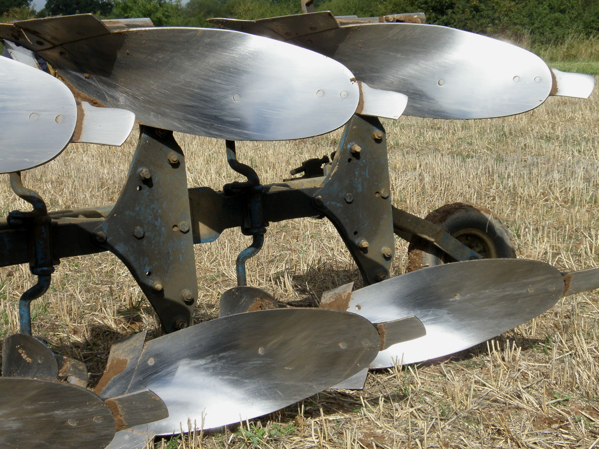 Parts of a reversible plough; The Forest of Arden Agricultural Society 62nd Hedging and Ploughing Match, St Giles Farm, Spernal, Studley, Warwickshire, United Kingdom